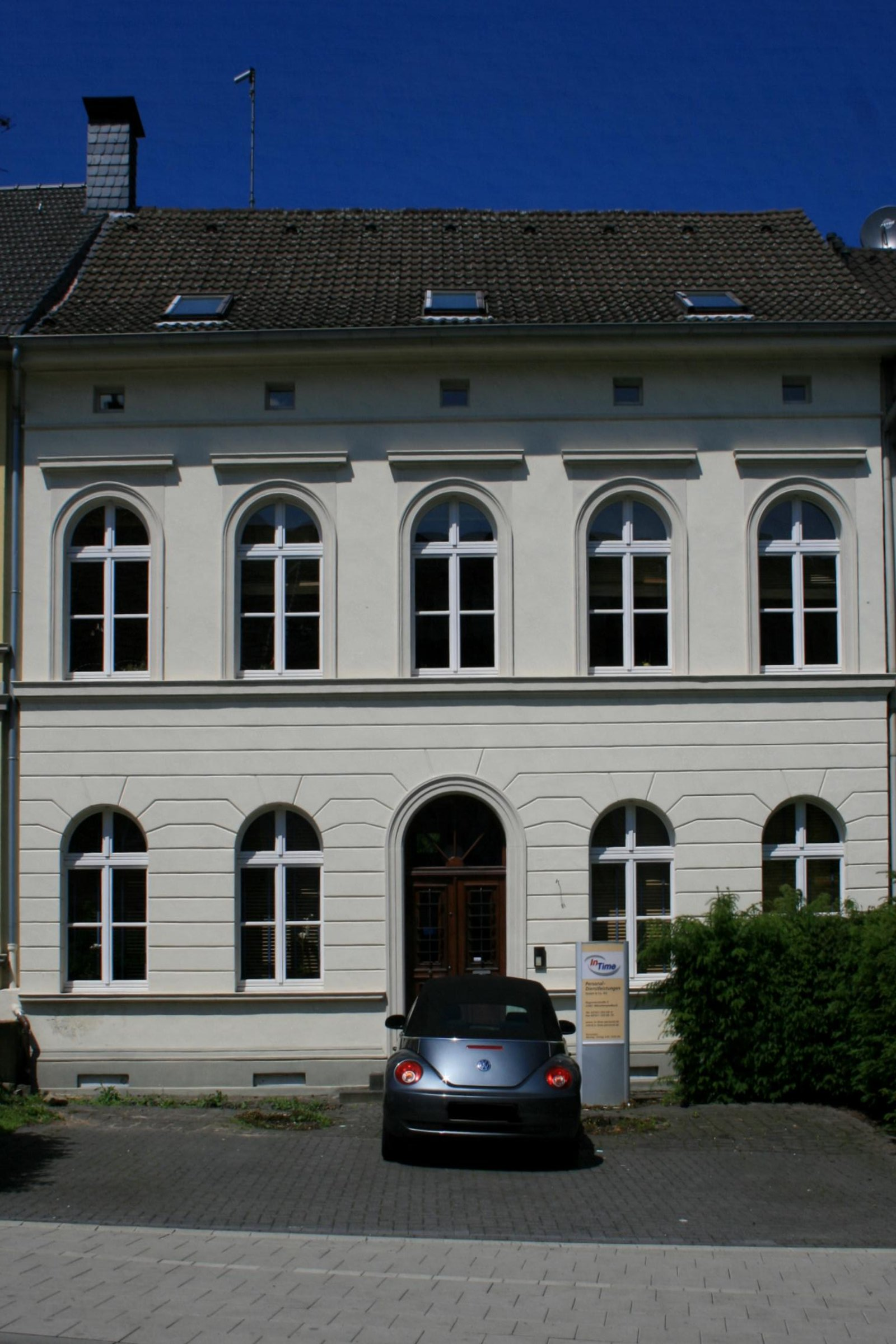 Cultural heritage monument No. R 010 in Mönchengladbach